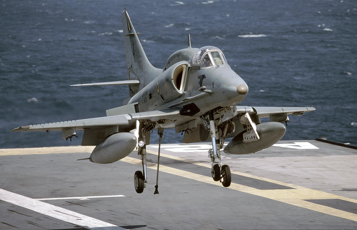 A-4 one second before touch-down.